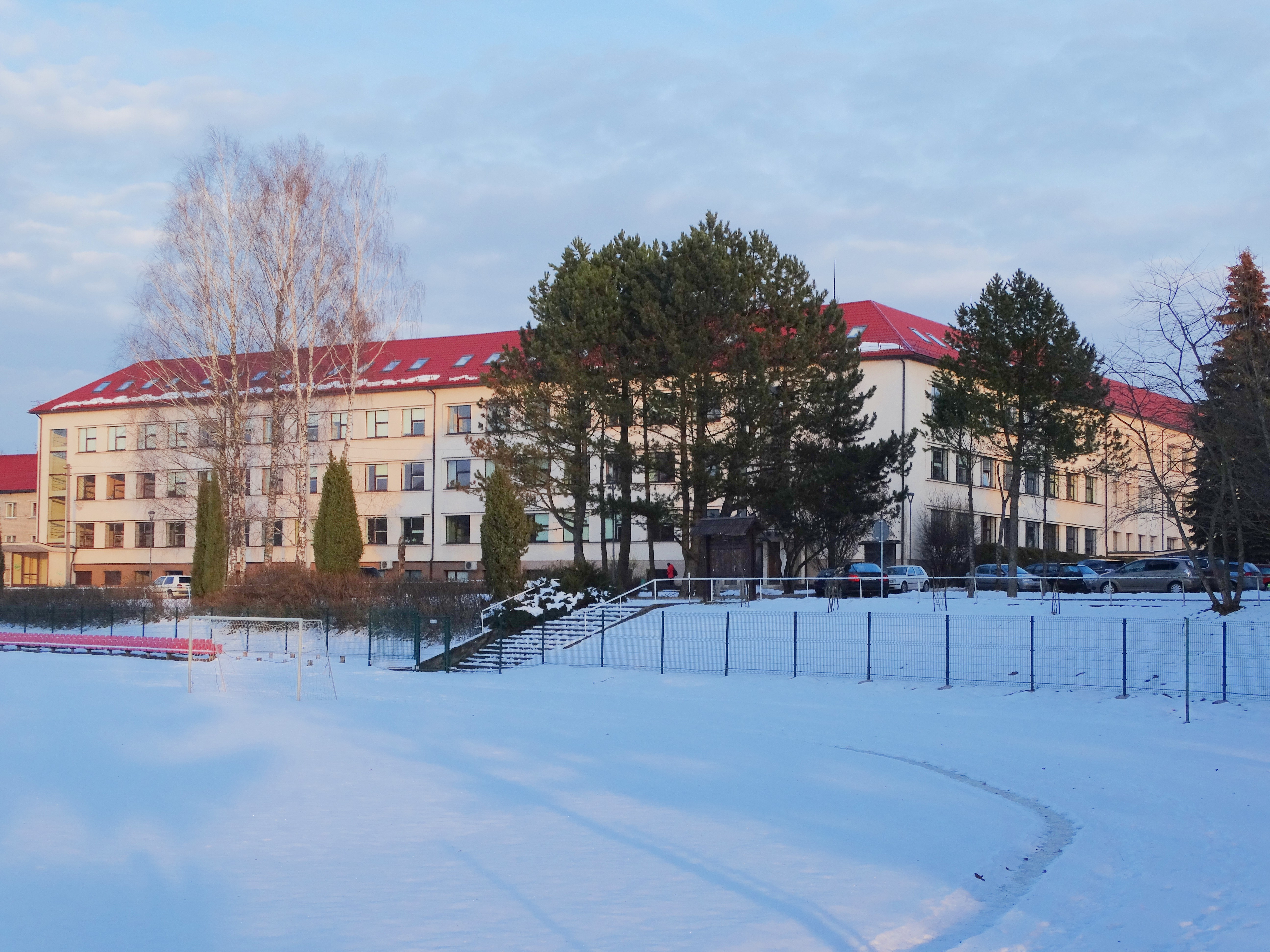 Forestry and Environmental Engineering College, Girionys, Kaunas District, Lithuania